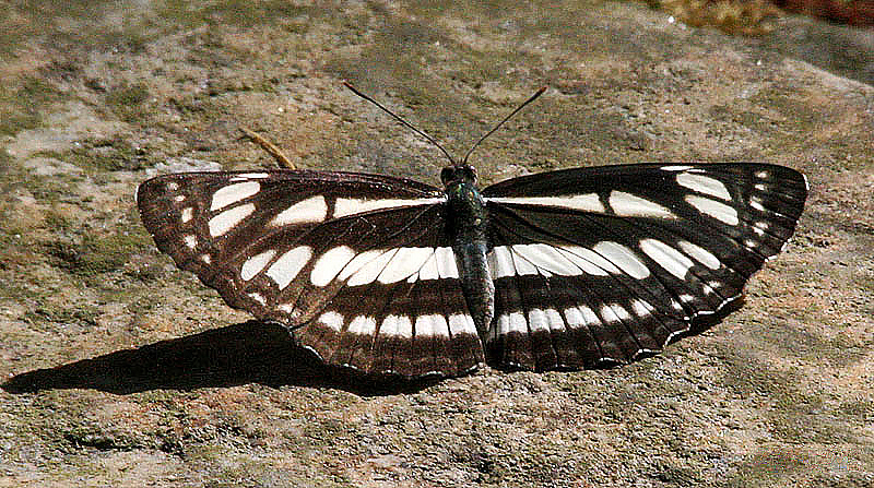 Common Sailor Neptis hylas. Shot taken at Kasol(around 6500 ft.), Kullu distt. of Himachal Pradesh, India during Sar Pass Trek.